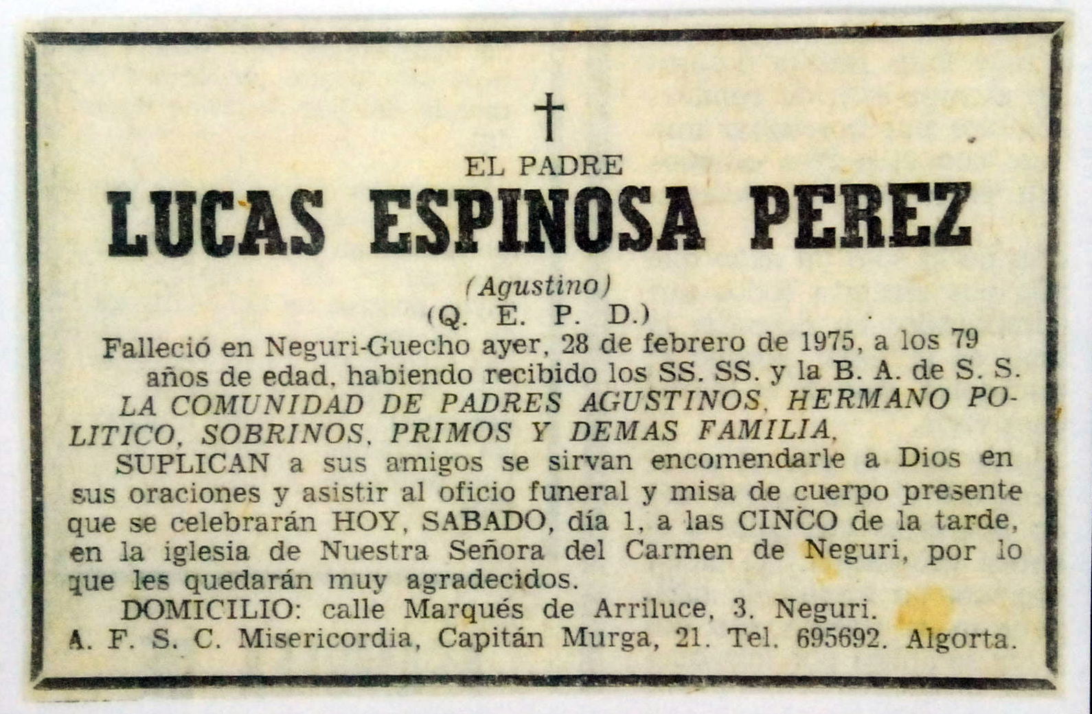 Father Lucas Espinosa Pérez obituary (Villabasta (Palencia), 18 October 1895 † Neguri (Vizcaya), 1975). Agustino priest and eminent Spanish (born in province of Palencia) philologist specializing in indigenous languages cocama, cocamilla and Amazonia omagua.